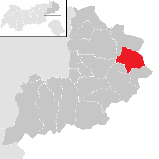 District Kitzbühel